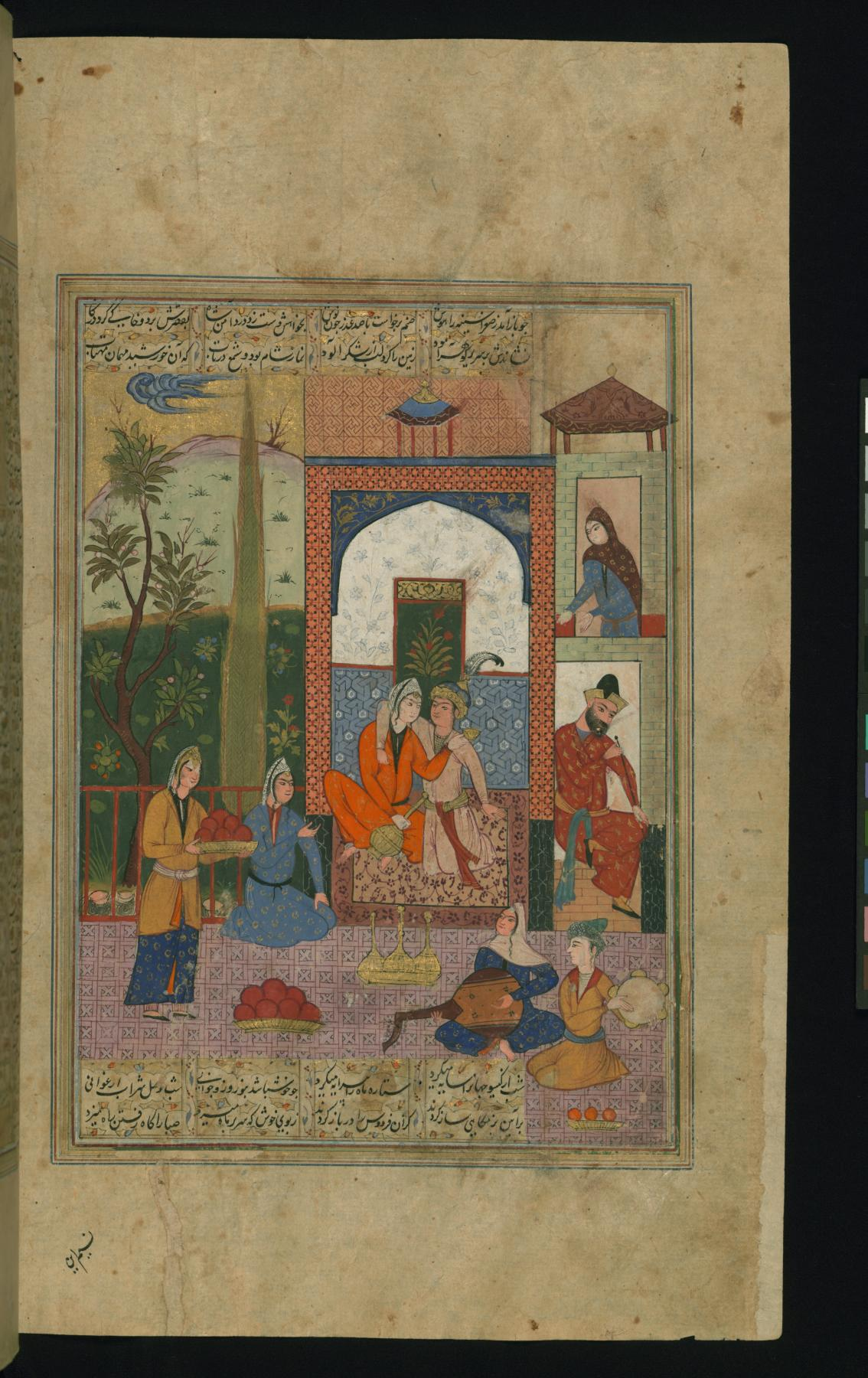 On this folio from Walters manuscript W.623, Khusraw and Shirin are entertained at their wedding.